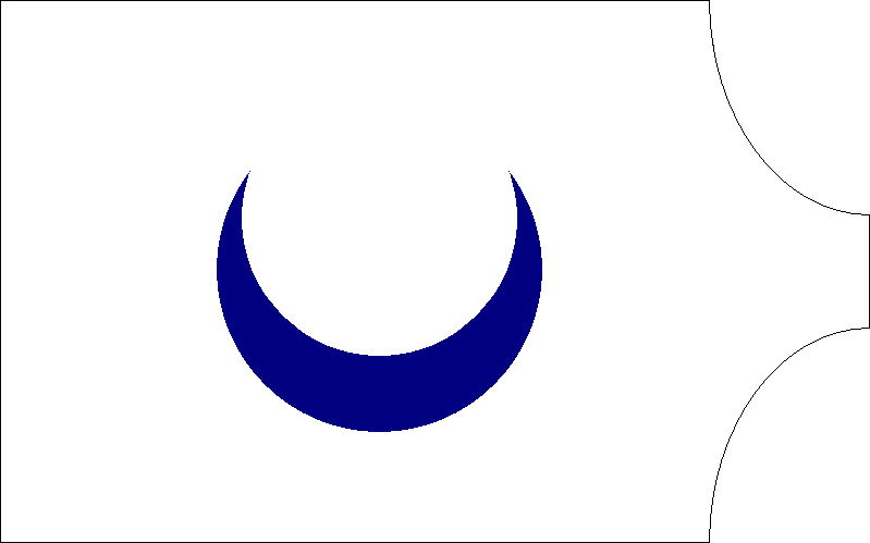 The flag of the Kingdom of Tlemcen from 1338 to 1488 according to